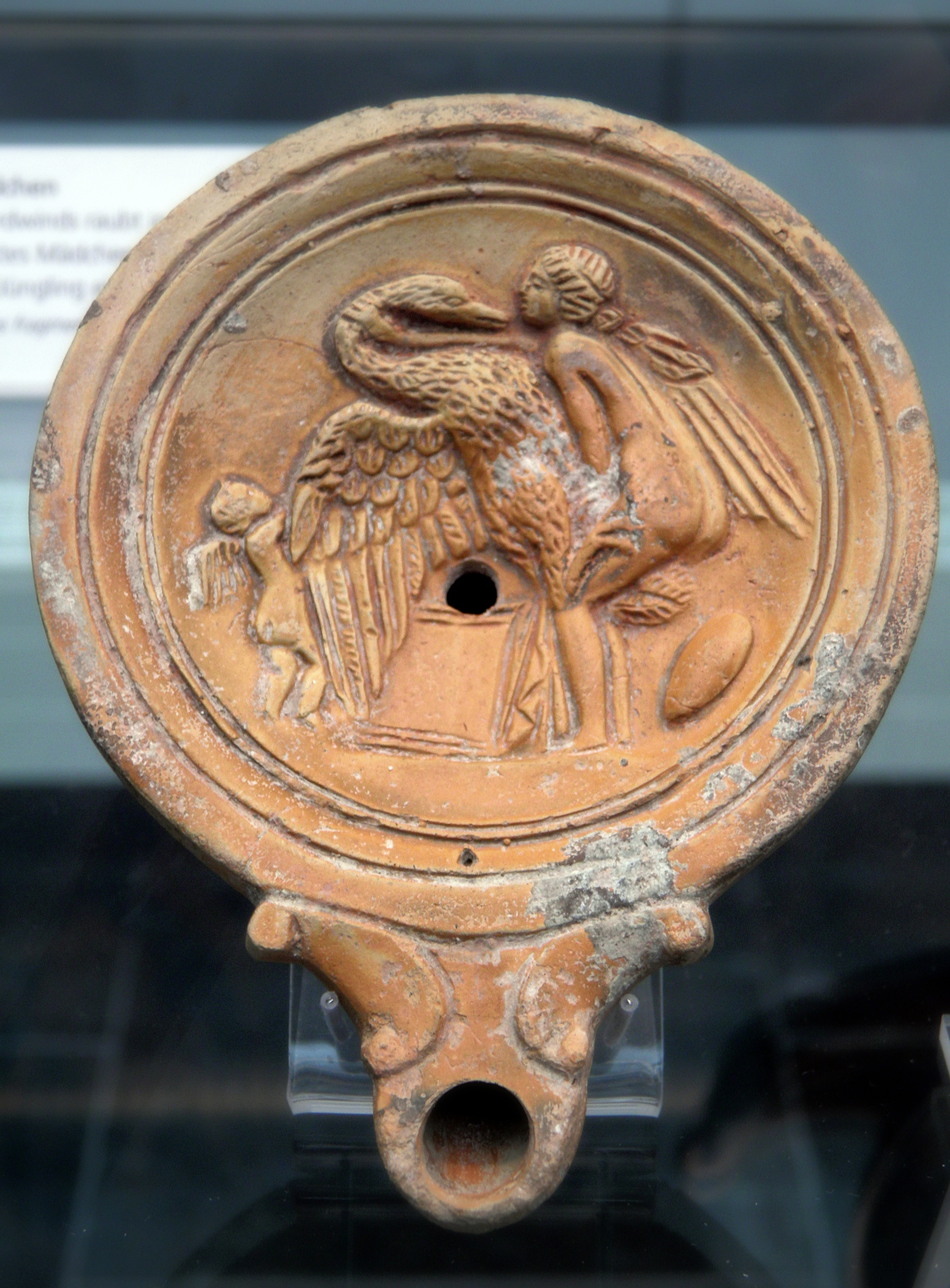 Zeus in the guise of a swan, supported by Eros, attacks Leda. In the center an altar sanctifies the happening. Behind Leda the egg from which the Dioscuri or, according to a different tradition, Helene got out. Terracotta Roman oil lamp 1st century AD, Staatliche Antikensammlungen, Munich (8958396304)